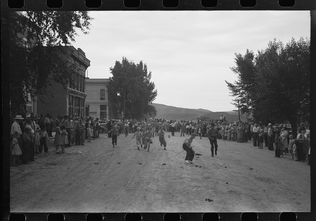 Black and white photo of boys running a potato race at a Labor Day celebration in Ridgway, Colorado, September 1940